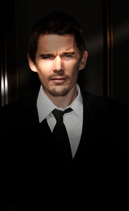 Ethan Hawke at the 2007 Toronto International Film Festival